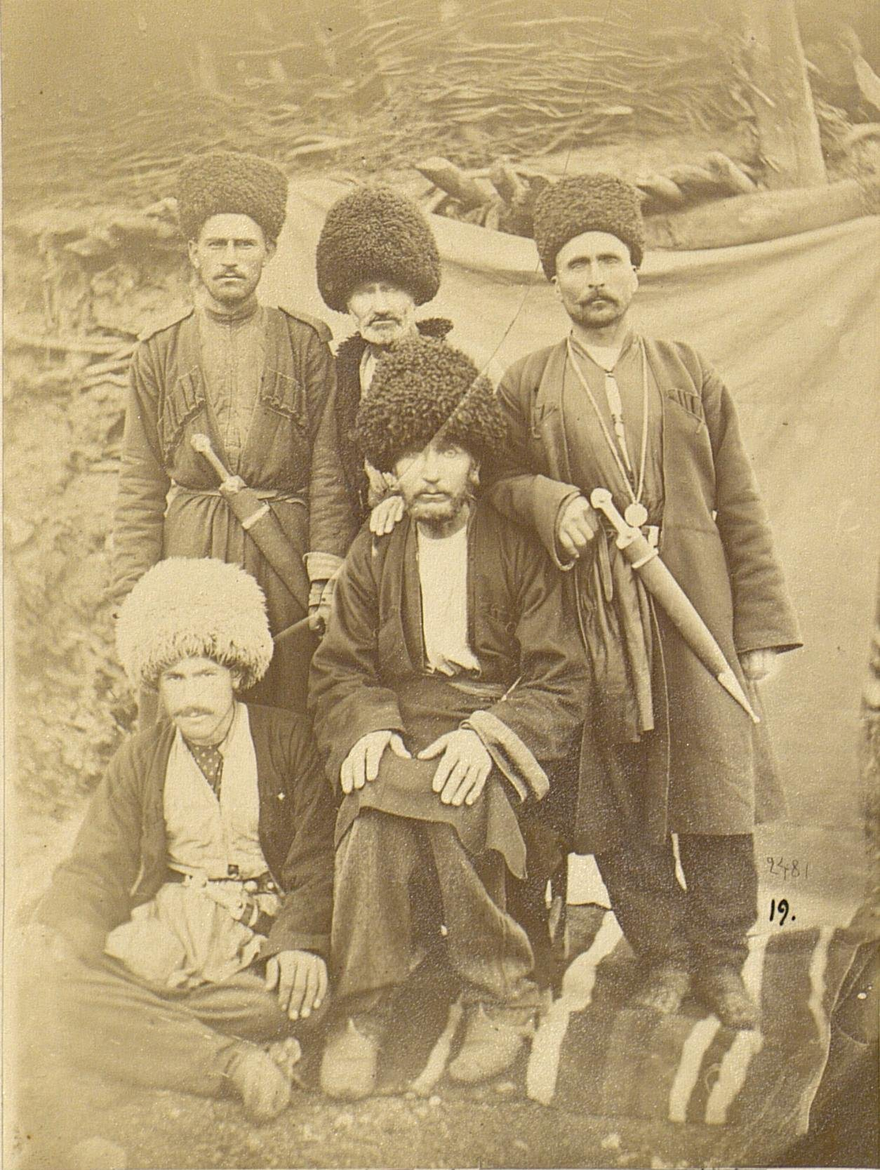 Group of men from Laza, Azerbaijan.